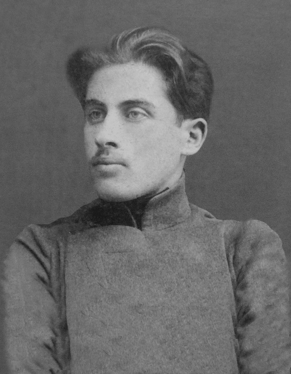 Titsian Tabidze as a student